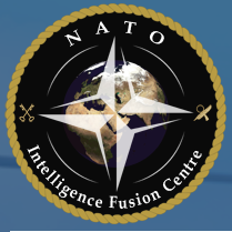 coat of arms NATO Intelligence Fusion Centre NIFC